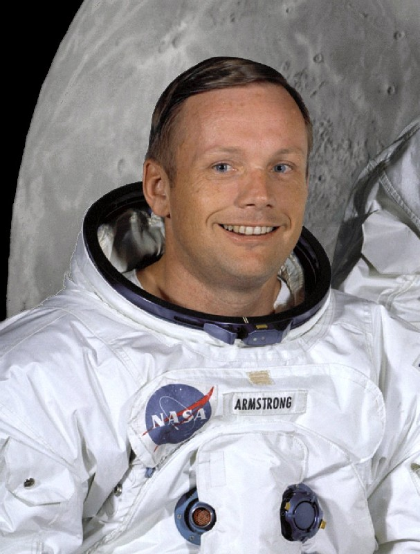 Neil Armstrong, Apollo 11